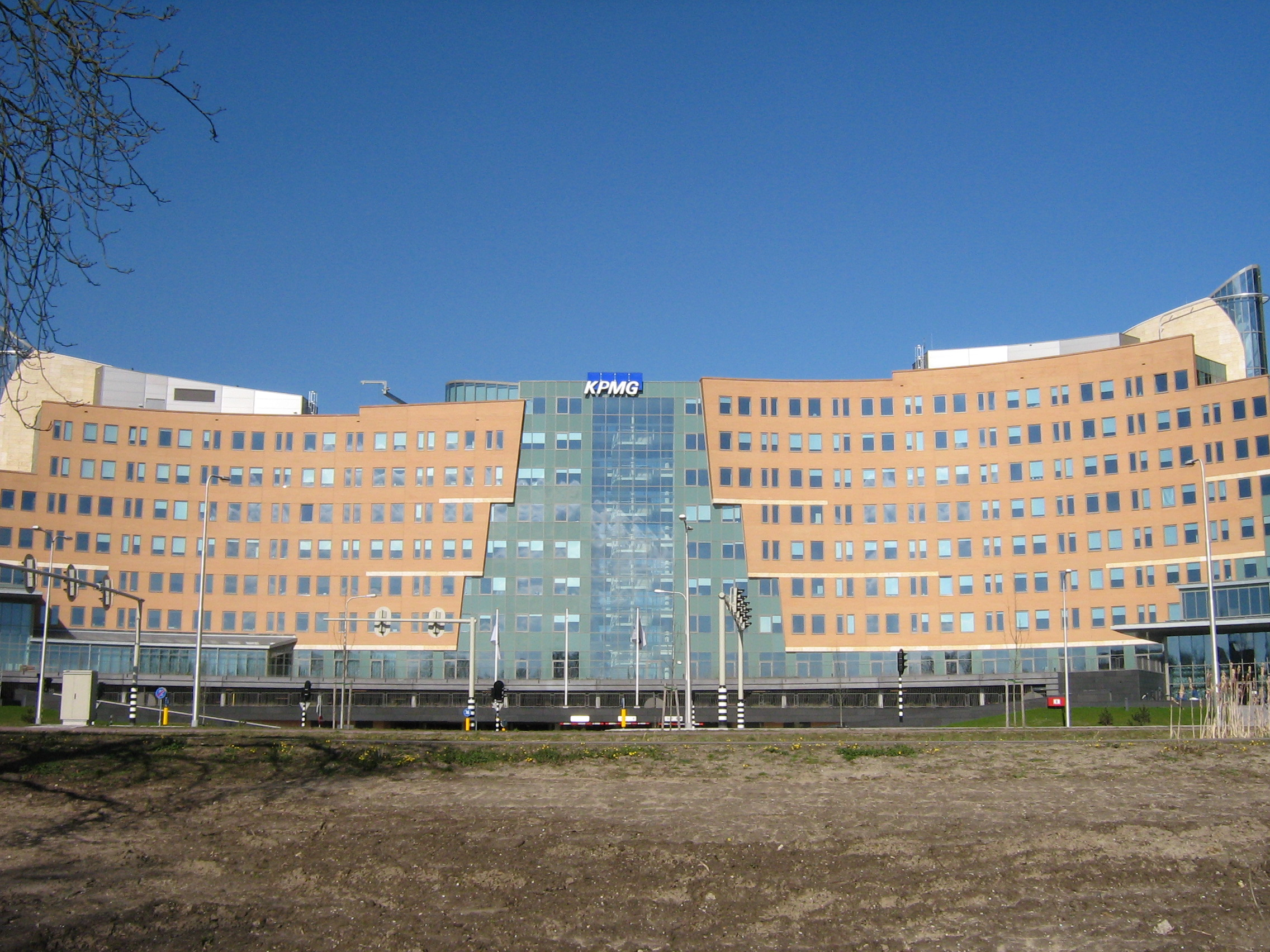 Headquarters of accountancy and consultancy company KPMG at 1 Laan van Langerhuize, Amstelveen, the Netherlands.